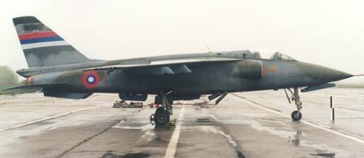 Bosnian Serb Airforce Soko J-22 Orao in the 2000s